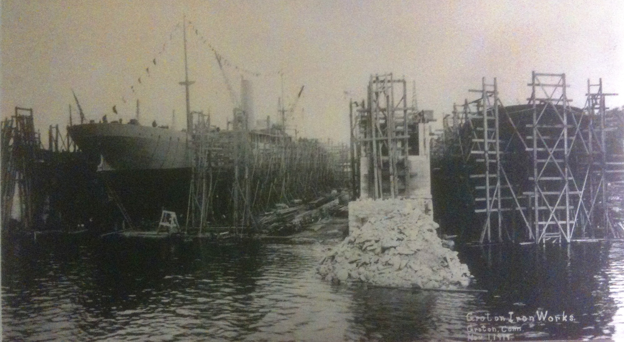 Quinnipiac Launch at Groton Iron Works, 1 November 1919